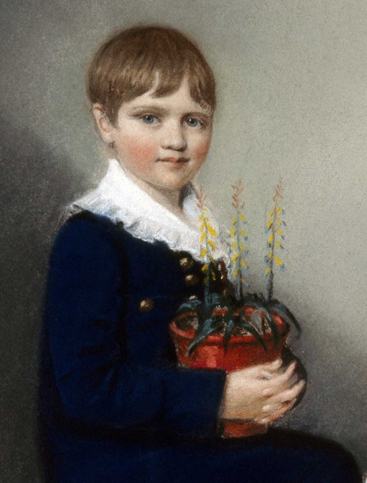 An 1816 chalk drawing of Charles Darwin at age six with sister Catherine, by Ellen Sharples